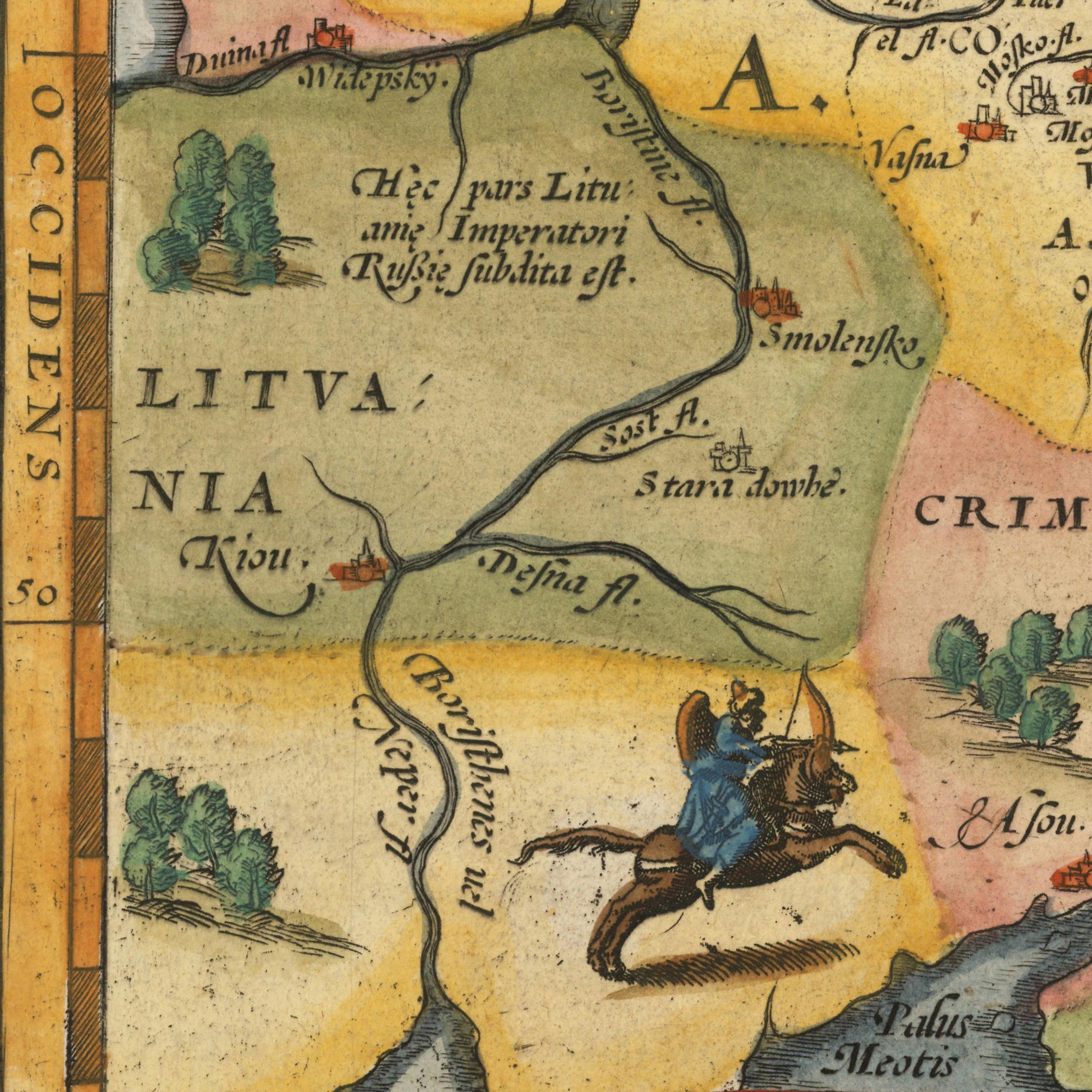 A fragment of antique map: Image:Map Litvania, Russiae, Moscoviae et Tartariae 1562 Ortelius.jpg * Source: Litvania, Russiae, Moscoviae et Tartariae Descriptio Auctore Antonio Jenkensono Anglo edita Londini anno 1562. * Publisher: Abraham Ortelius (London, 1570)